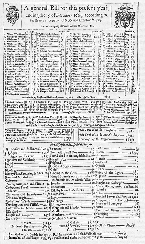 Bill of Morality 1665 (Great Plague of London)